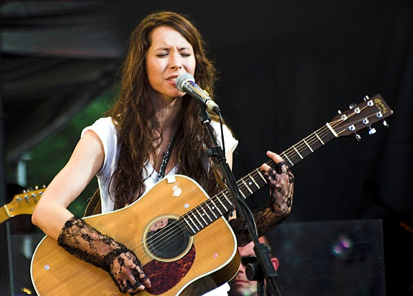 Nerina Pallot at Cornbury Music Festival